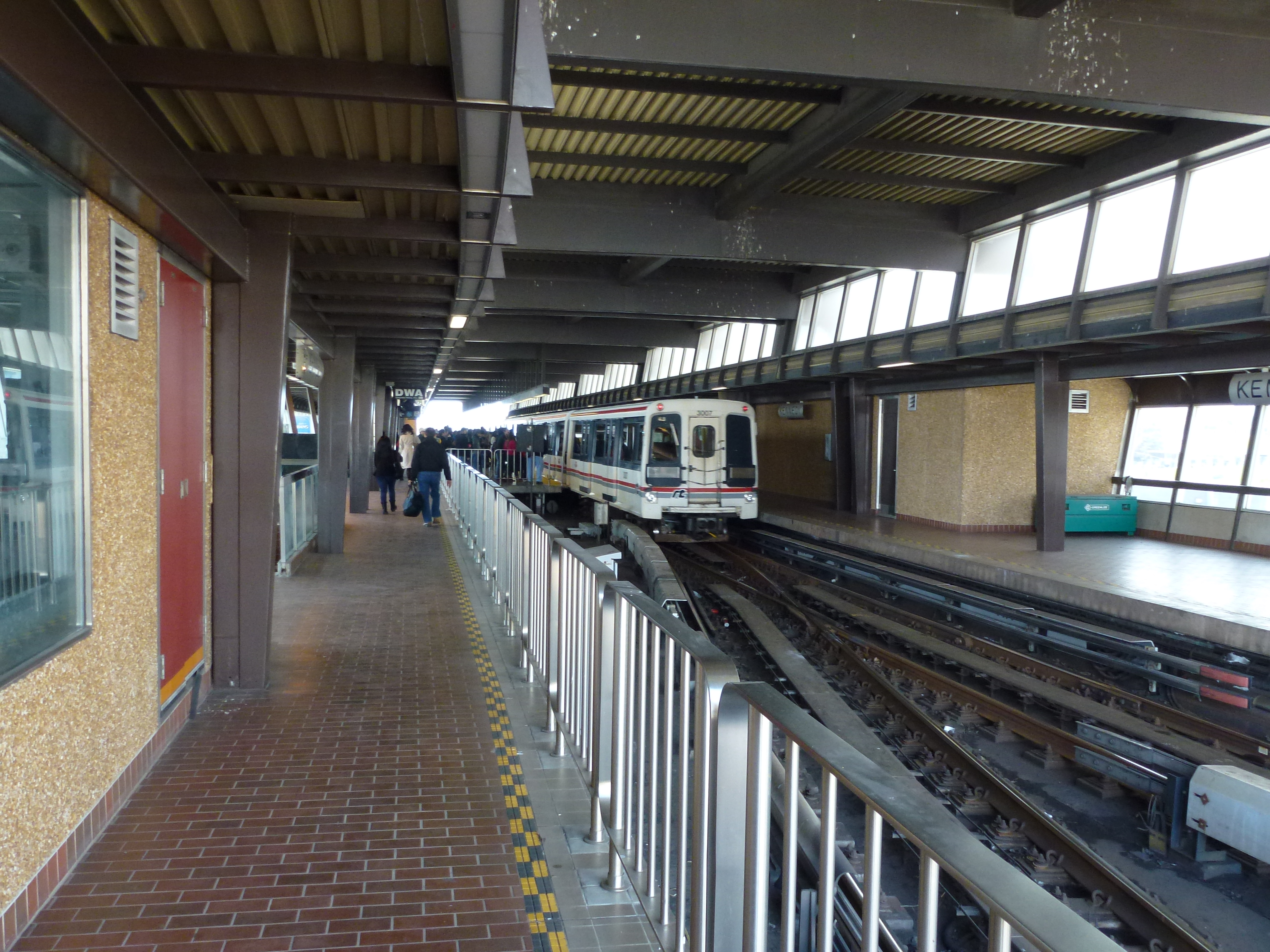 Parts of panoramas of intersections where there will be Eglinton Crosstown LRT stations, GPS embedded, taken 2013 04 25 (326).JPG